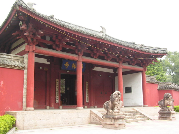 The gate of Hualinsi Temple, Fuzhou, Fujian Province, China Mìng-dĕ̤ng-ngṳ̄: Huà-lìng-sê Săng-muòng, diŏh Dṳ̆ng-guók Hók-gióng-sēng Hók-ciŭ-chê